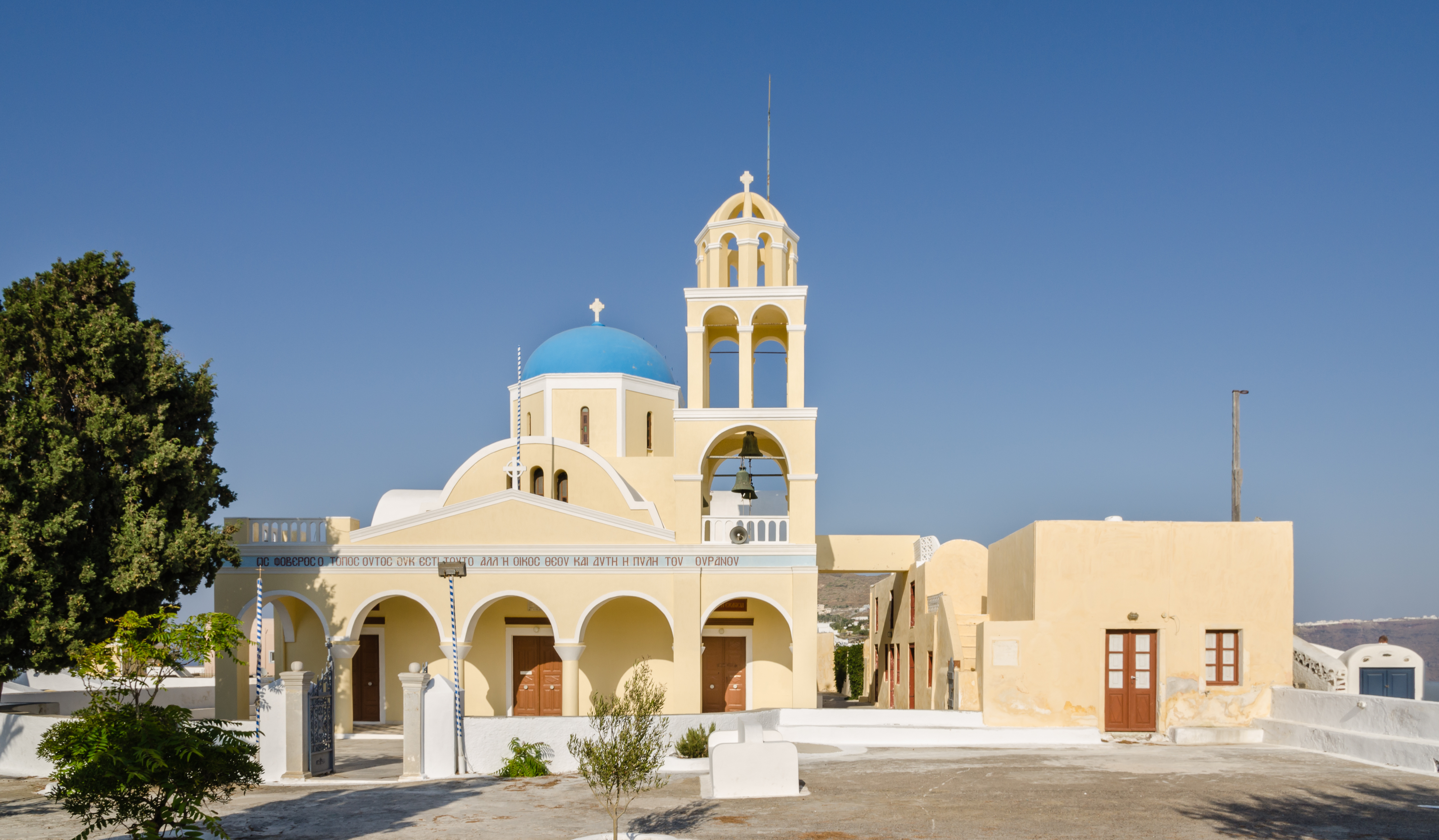 Church, Oia, Santorini, Greece.